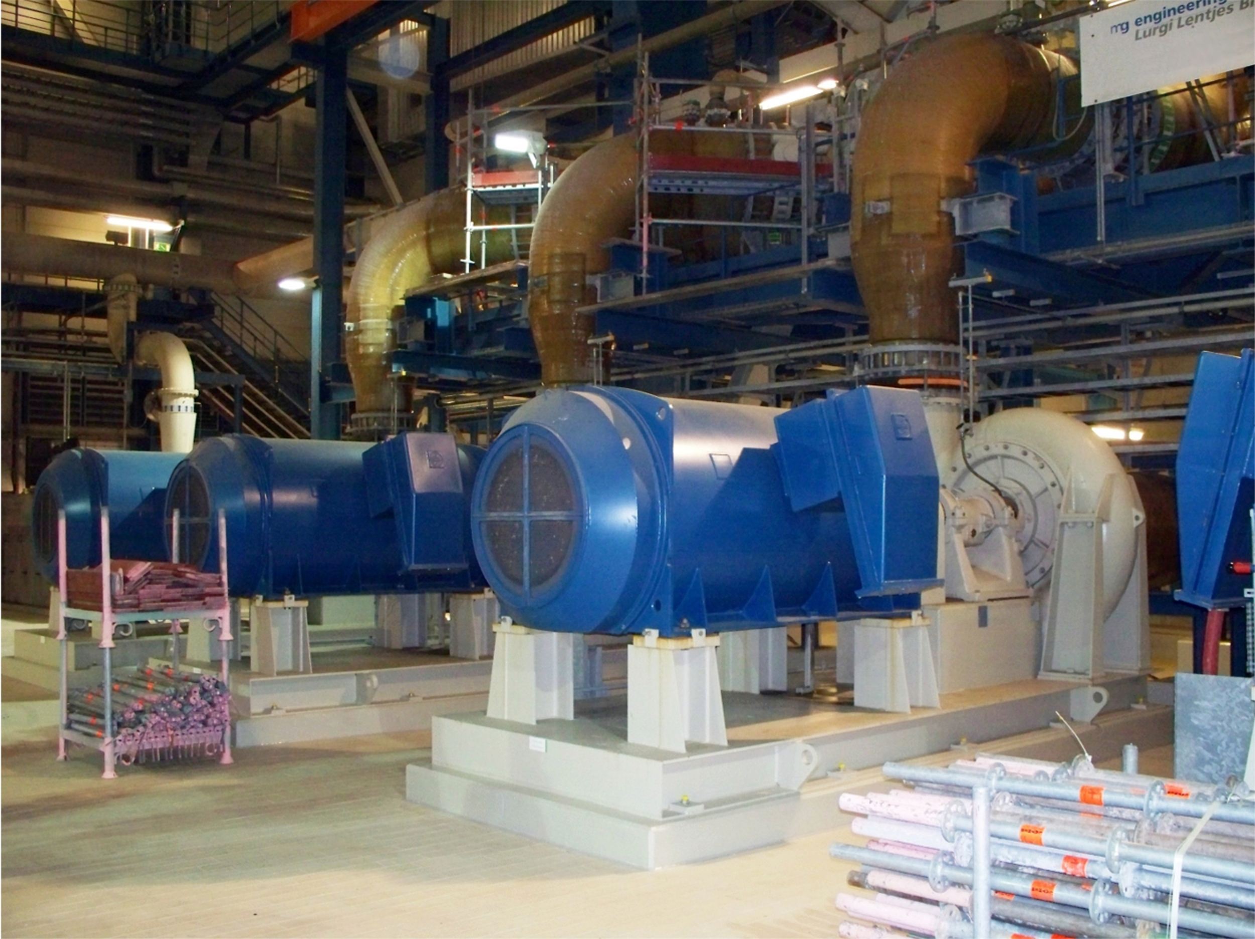 Flue-gas desulfurization machine inside the Lippendorf Power Station.